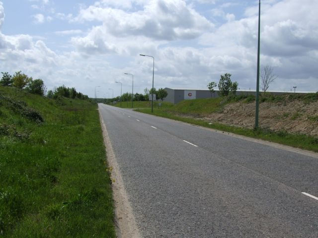 Straight Down the B1127 to the Roundabout Across the former Beccles/Ellough Airfield. Industrial Units on the right.